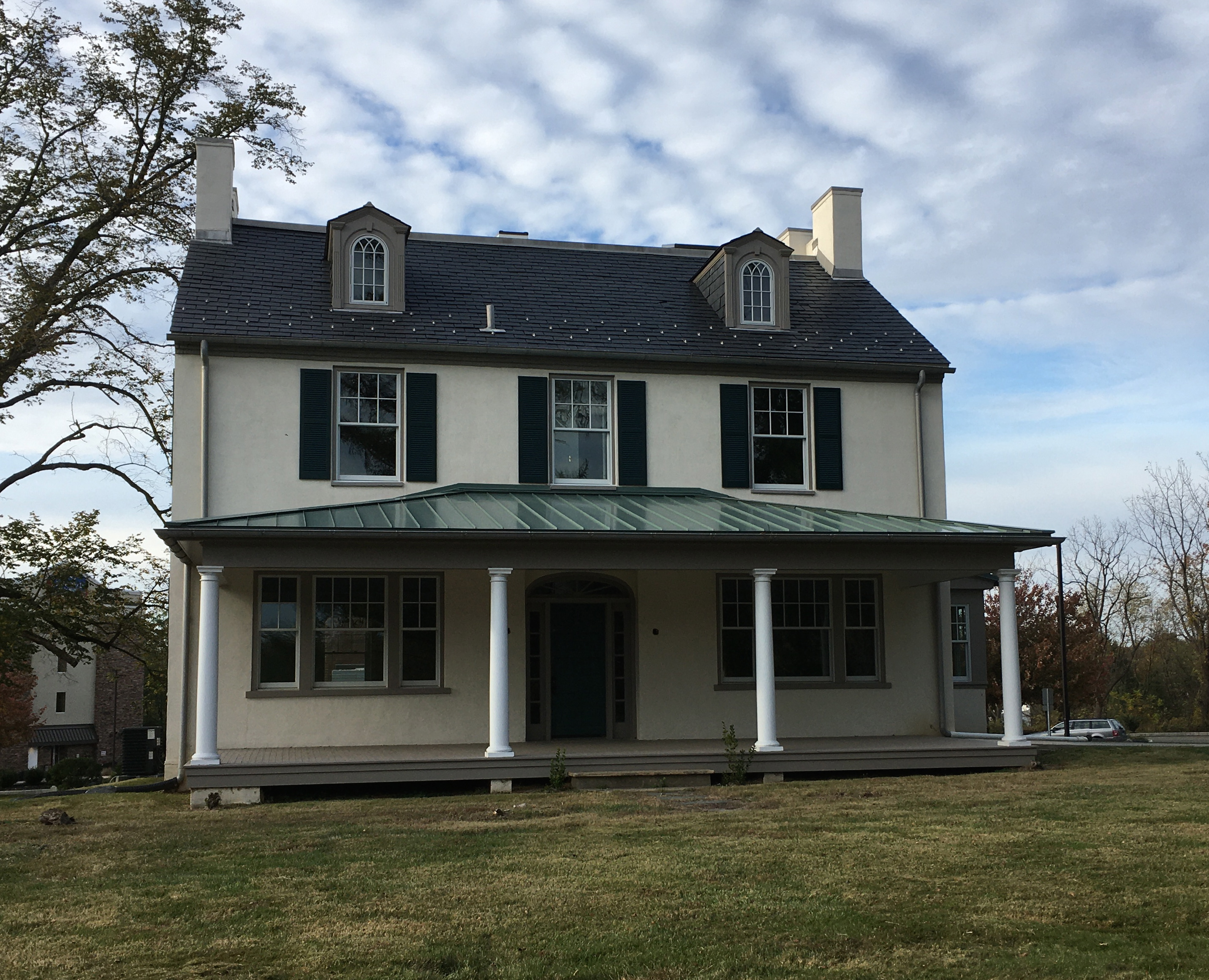 The Pines is located at 723 East Baltimore Pike, Kennett Square, Pennsylvania, USA. The house was used as a safe house in the Underground Railroad in the years leading up to the Civil War in the United States.